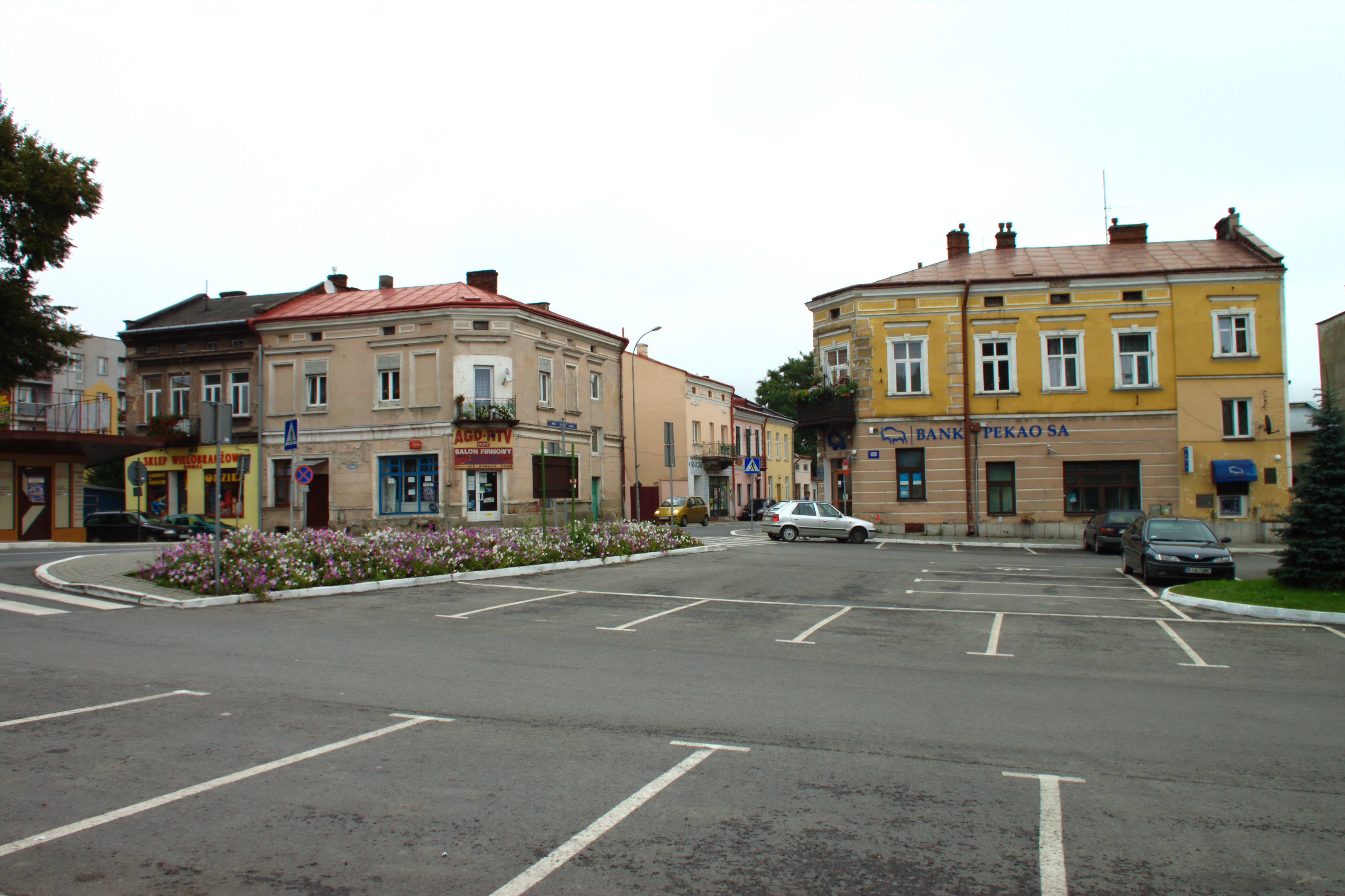 A parking lot at the main square in Radymno, Podkarpackie voivodeship, Poland